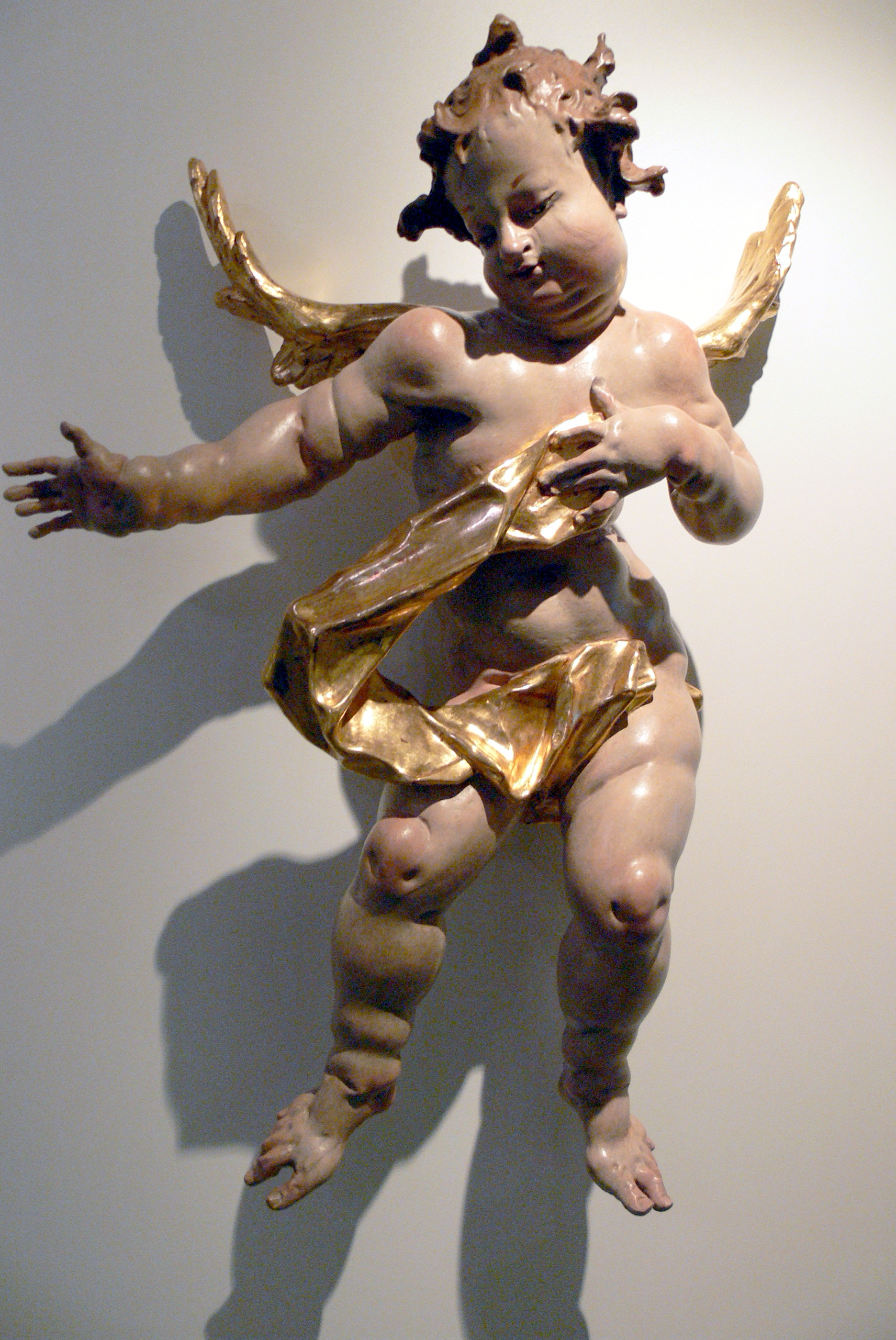 Oberhausmuseum ( Passau ). Putto ( 18th century ) by Joseph Deutschmann.